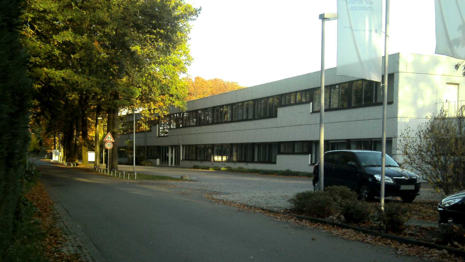 Sheltered workshop in Hochbend (de:), Tönisvorst, Germany.